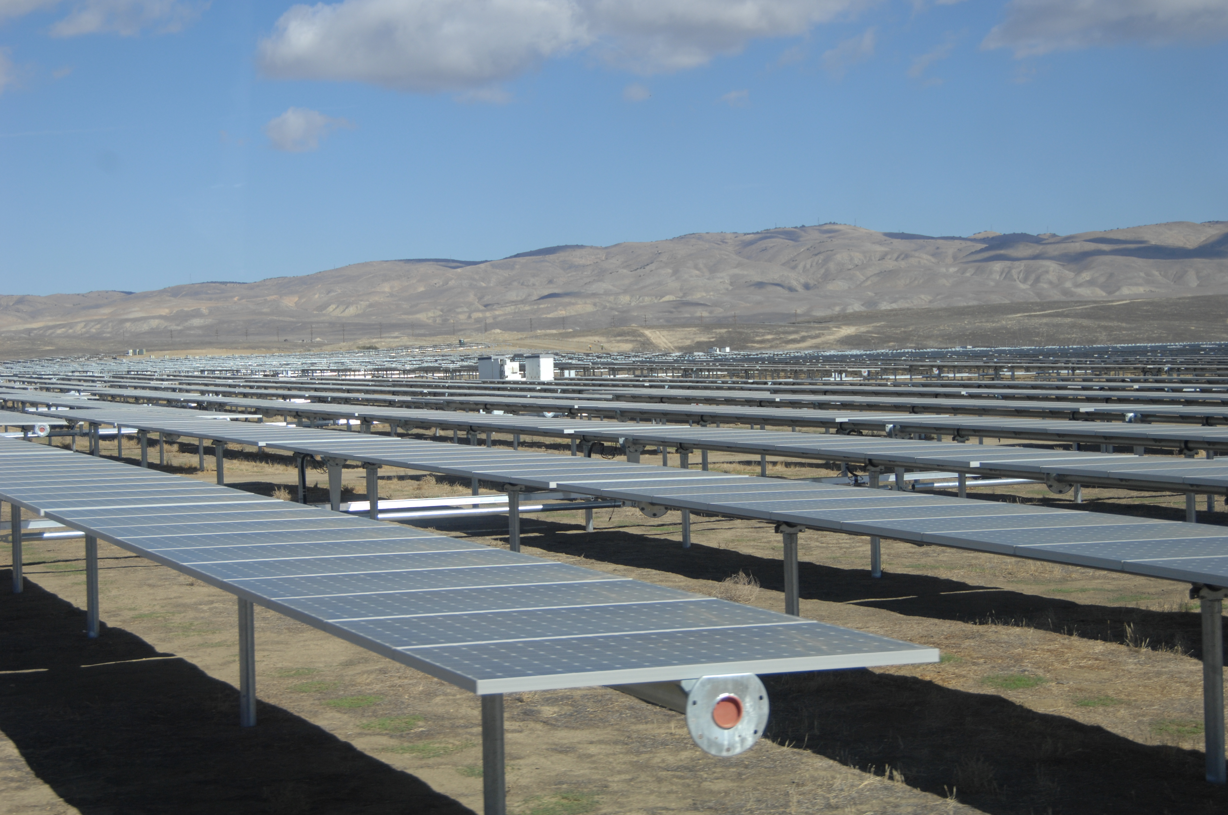 Photo Credit: Sarah Swenty/USFWS